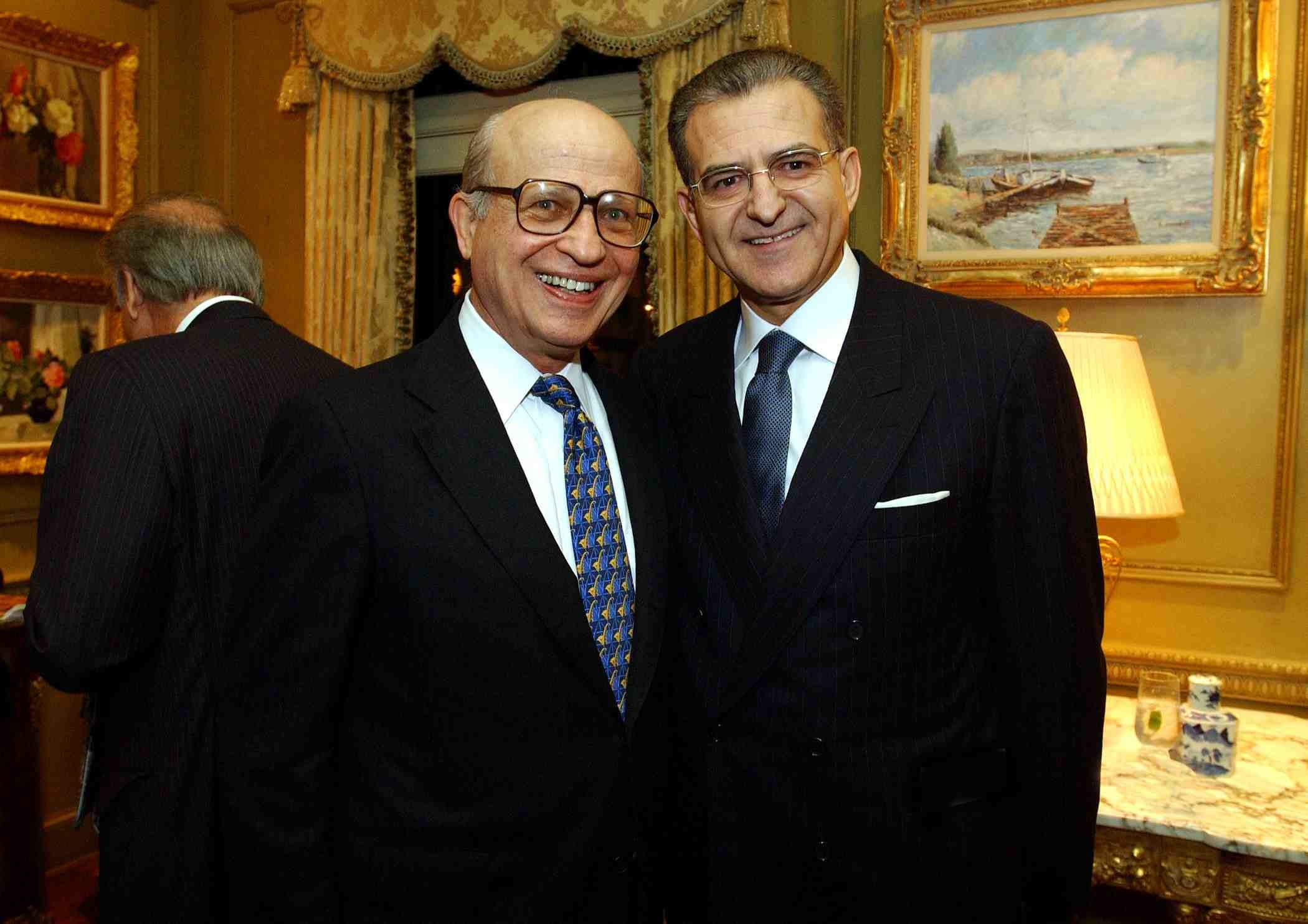 Εκδότες του Εθνικού Κήρικα Gene Rossides και Antonis H. Diamataris.